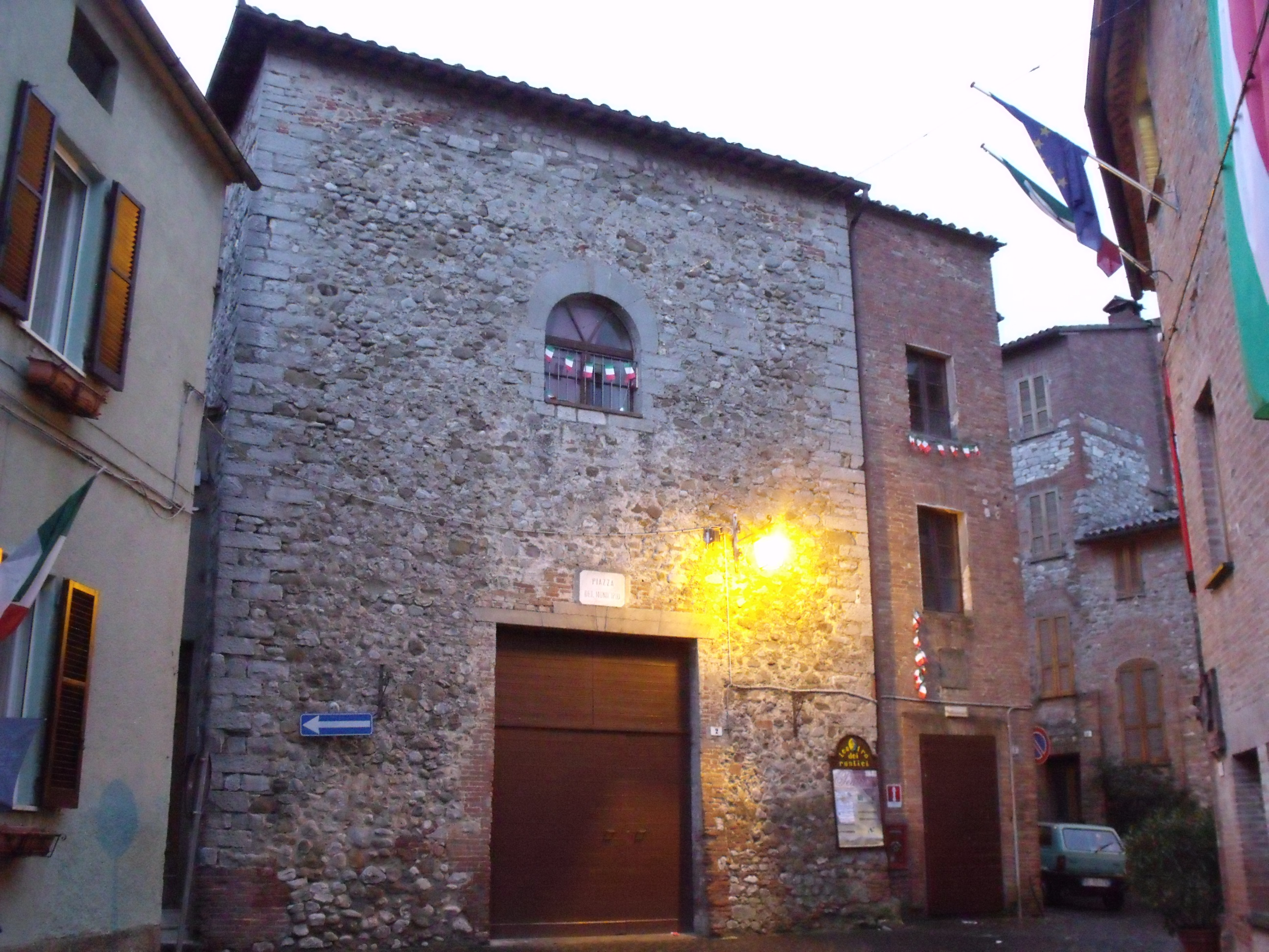 Teatro dei Rustici in Monteleone d'Orvieto, Umbria, Italy